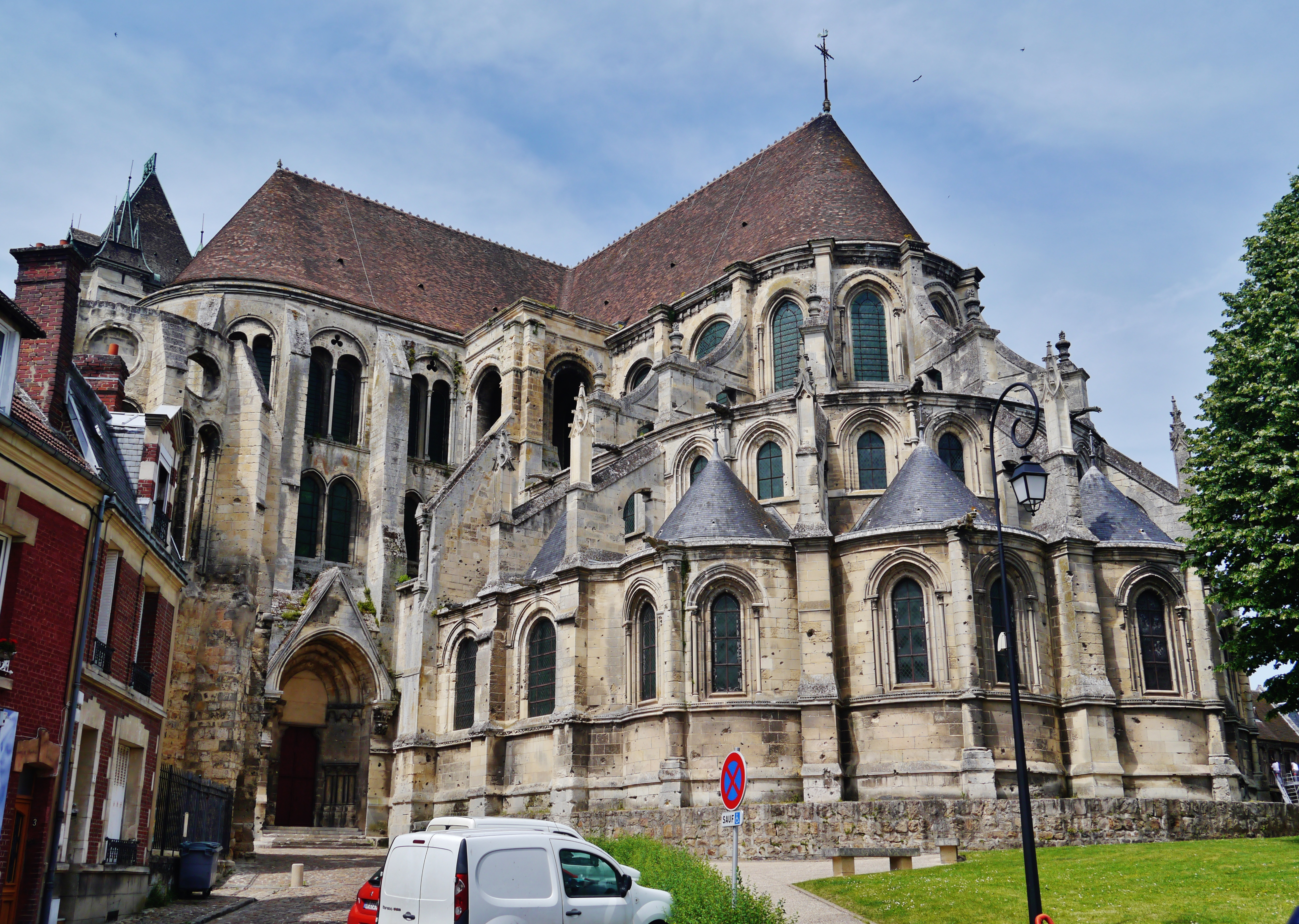 Choir of the former Cathedral of Our Lady, Noyon, Department of Oise, Region of Upper France (former Picardy), France